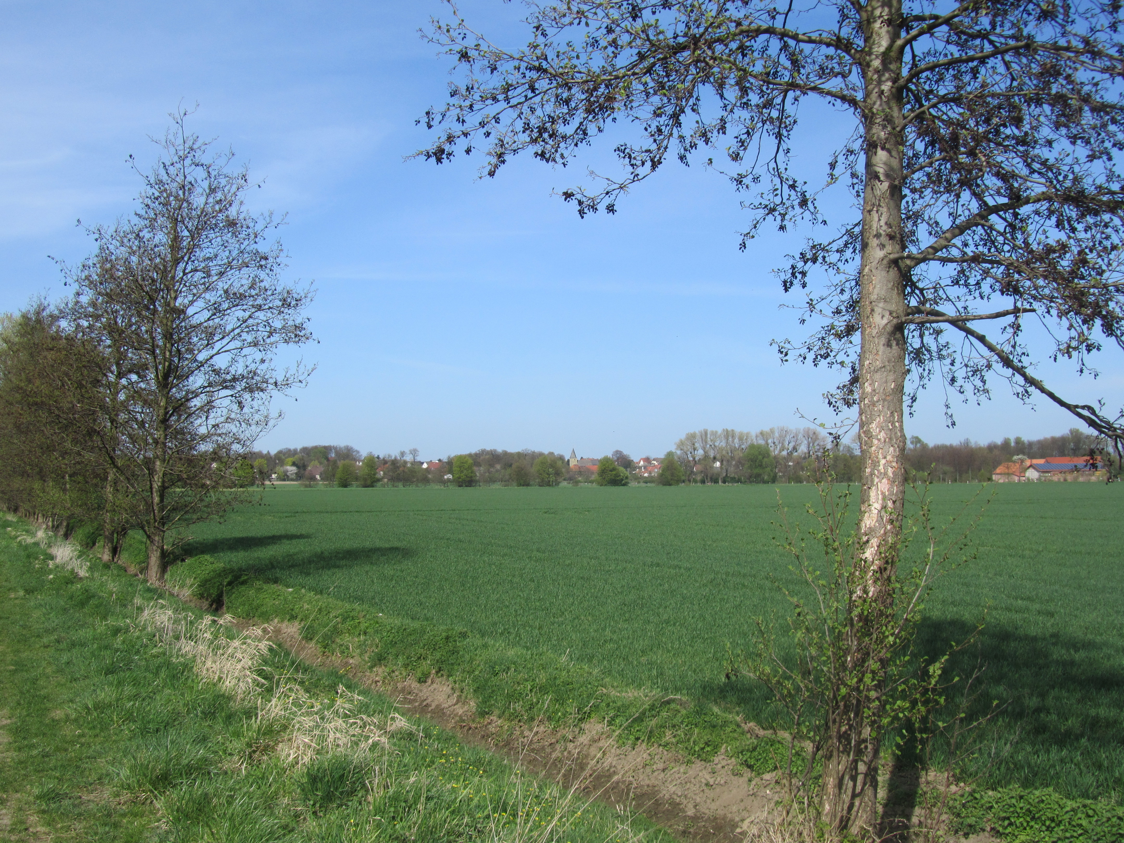 Landscape of region Soester Börde between the villages of Schwefe and Borgeln near Soest, Germany